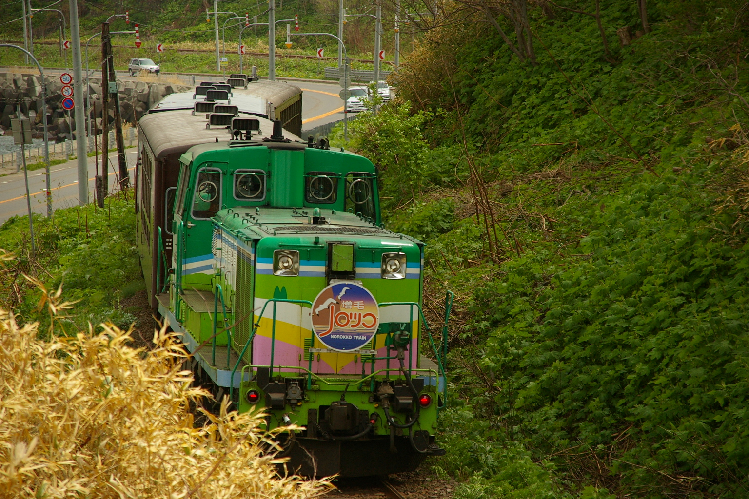 JR hokkaido Mashike norokko train.